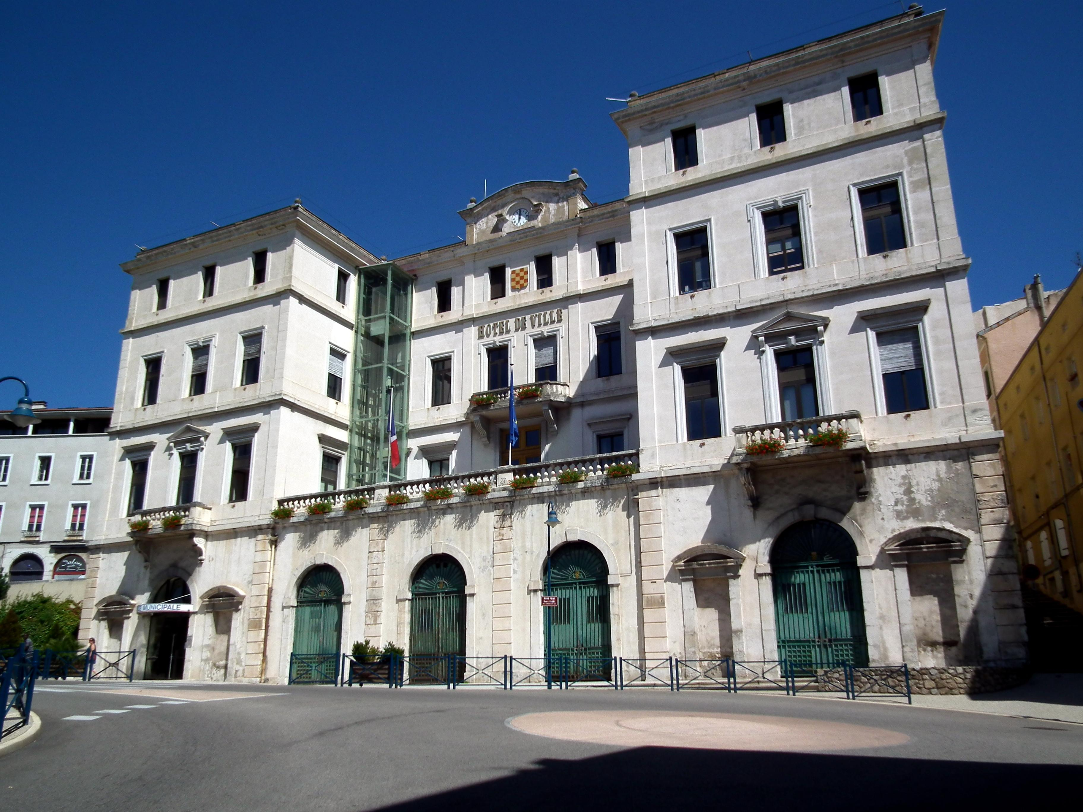 Town hall of Annonay - Ardèche - France